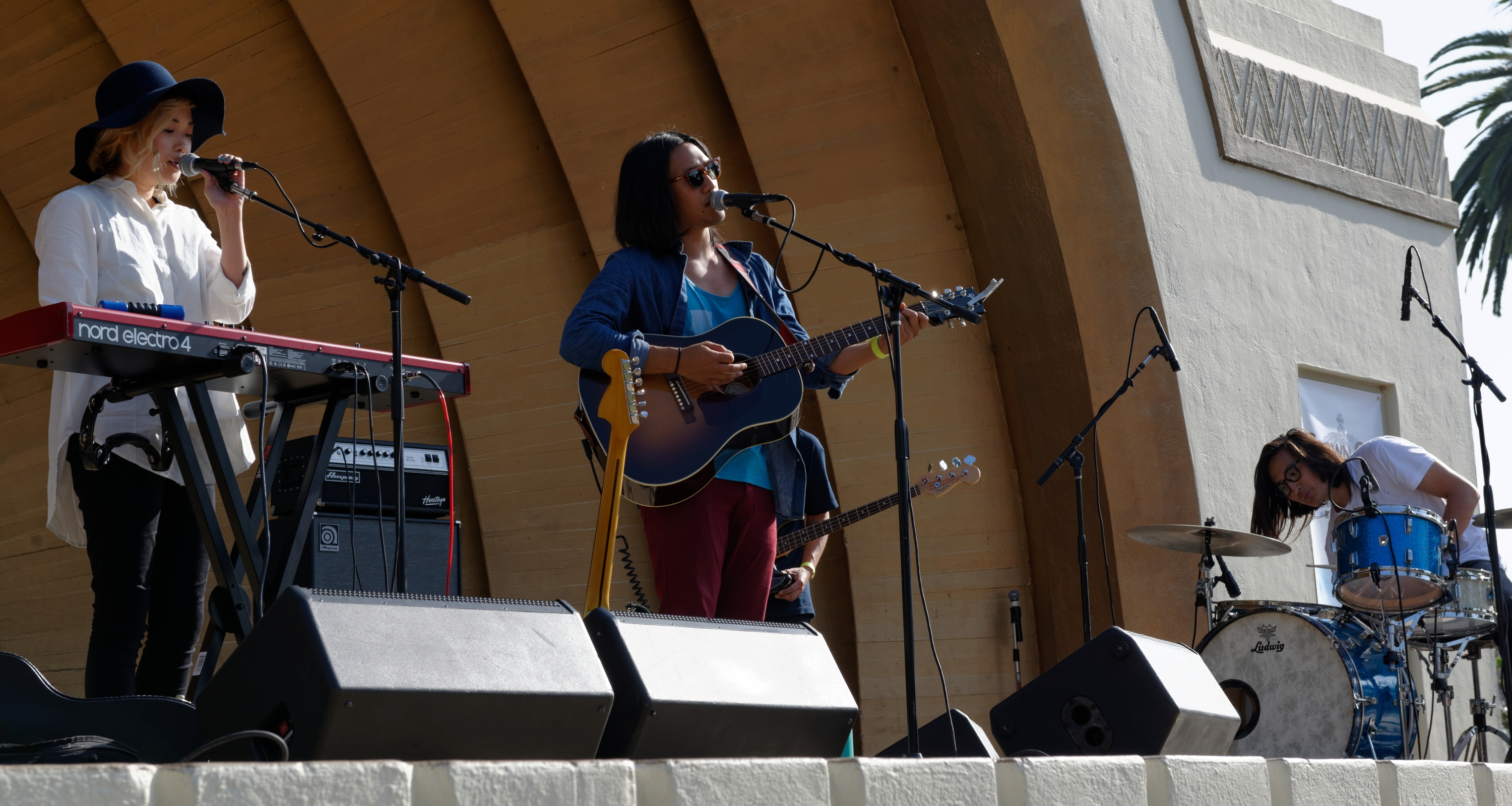 Run River North performing live on the Memorial Park Stage, at Make Music Pasadena in Pasadena California on Saturday June 7th, 2014.